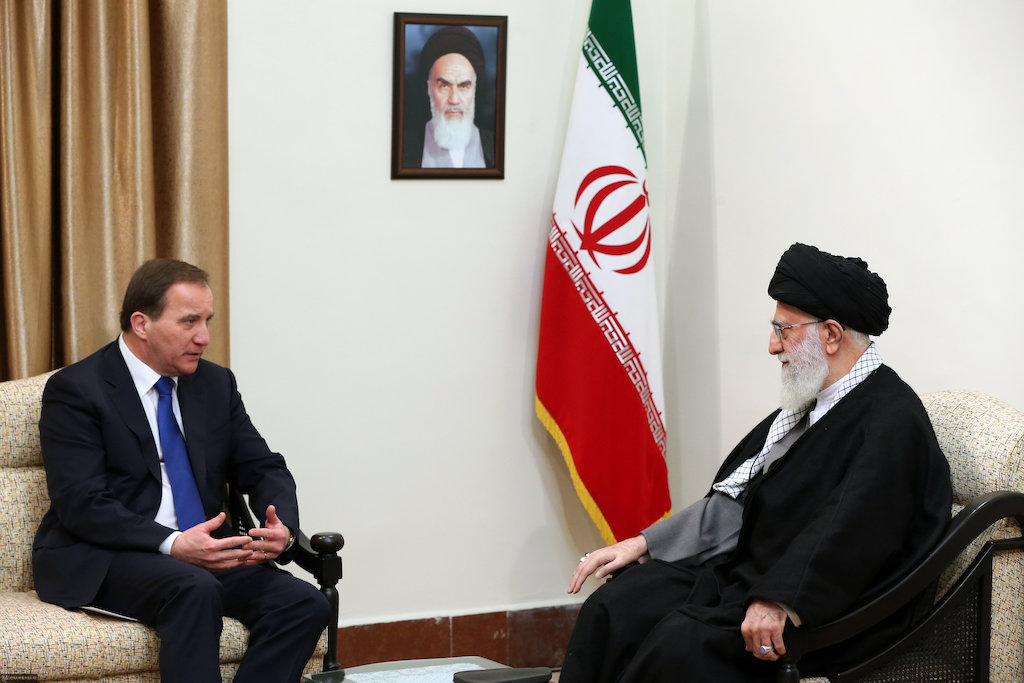 Swedish Prime Minister in meeting with Ali Khamenei, Supreme Leader of Iran, and Iranian President Hassan Rouhani accompanied him